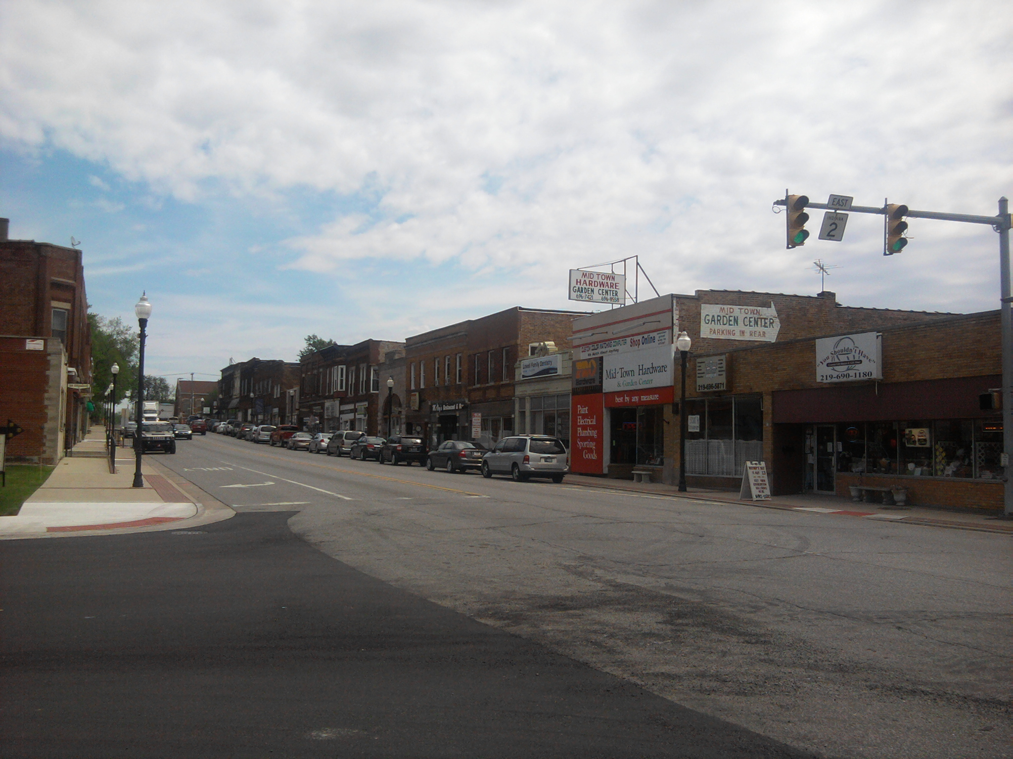 Commercial Avenue in downtown Lowell, Indiana, looking east